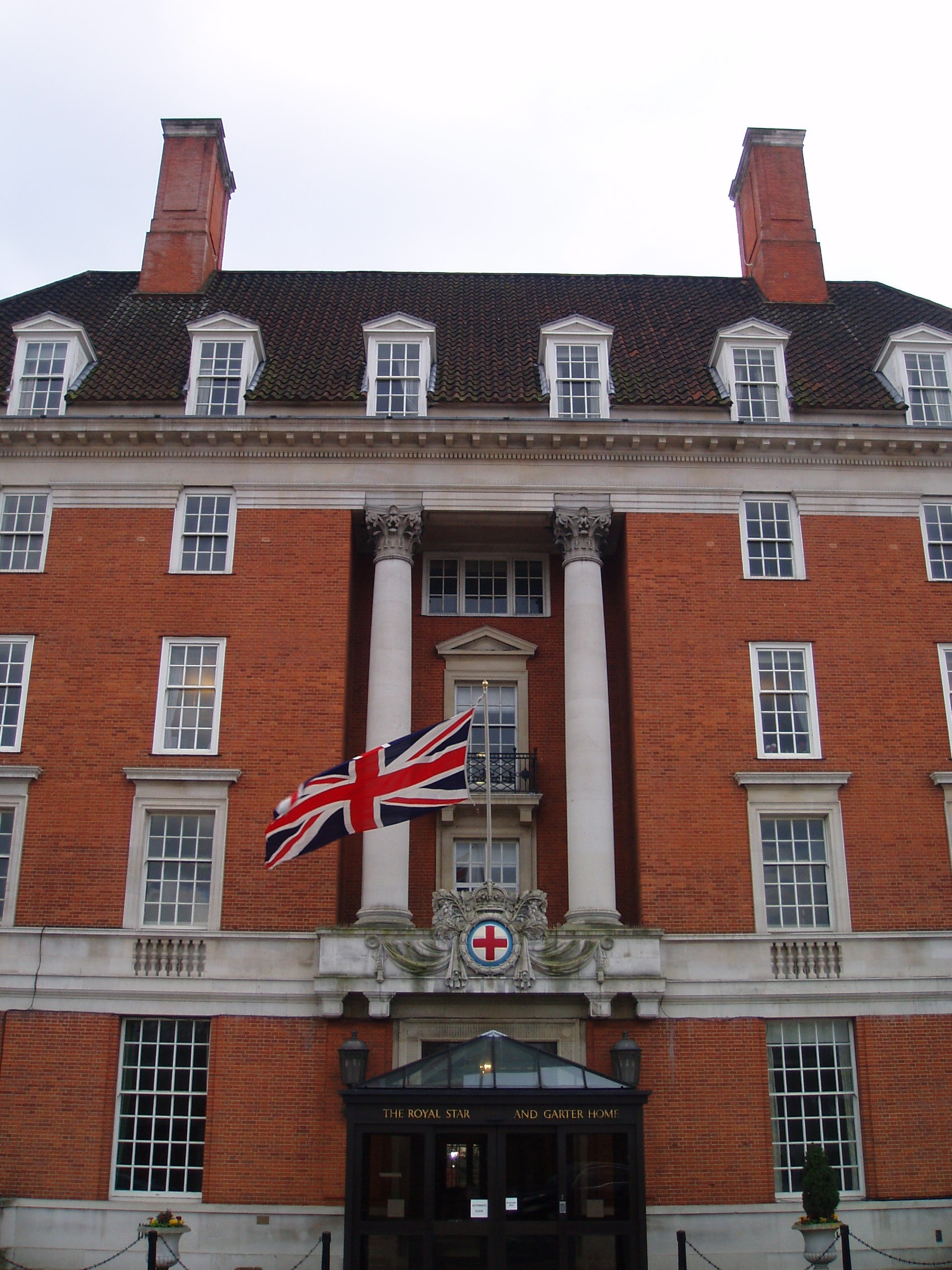 Star and Garter Home, Richmond, London, UK. 11/03/2010.